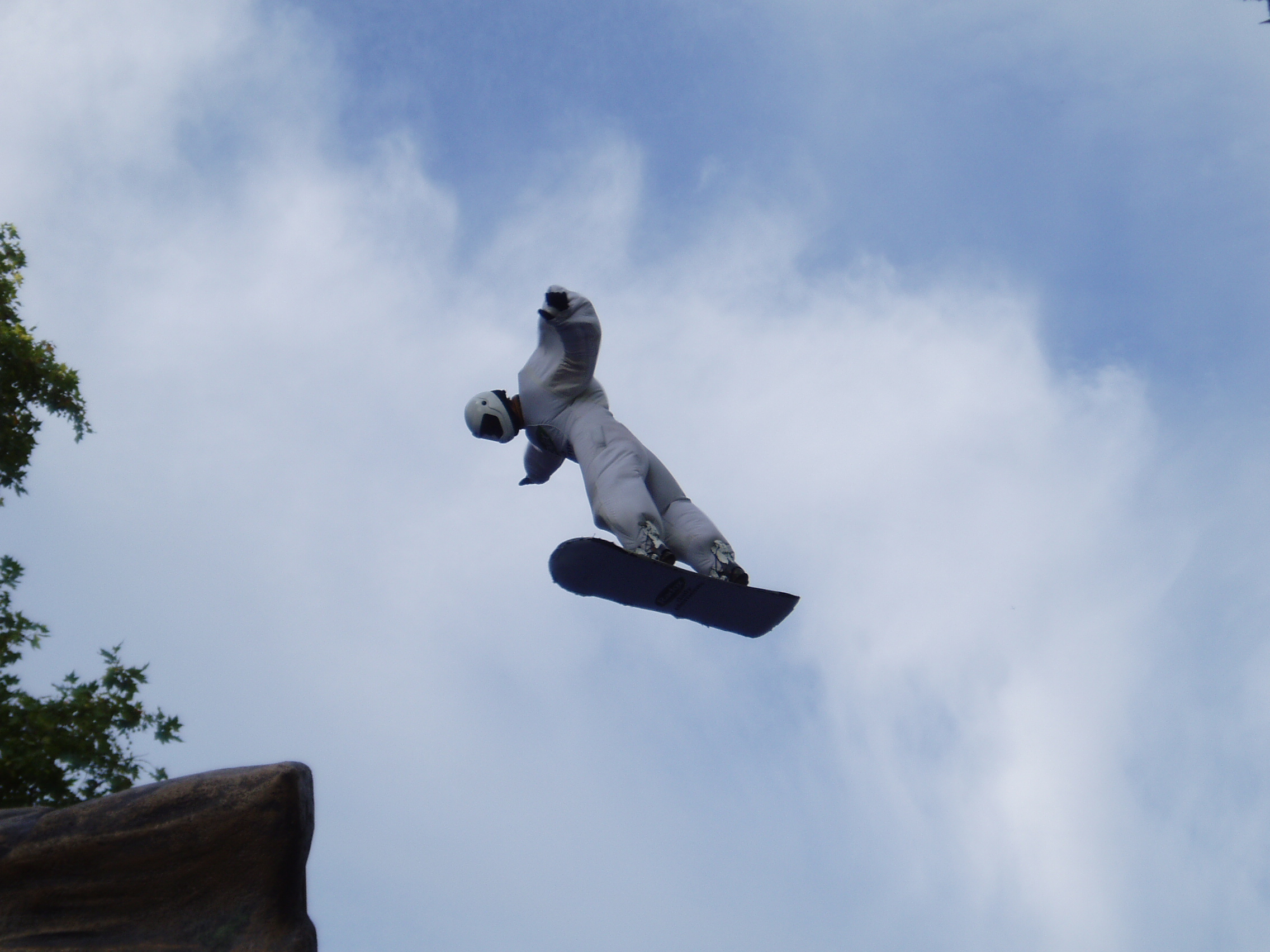 Skydiving simulator in Russell Square Gardens, London